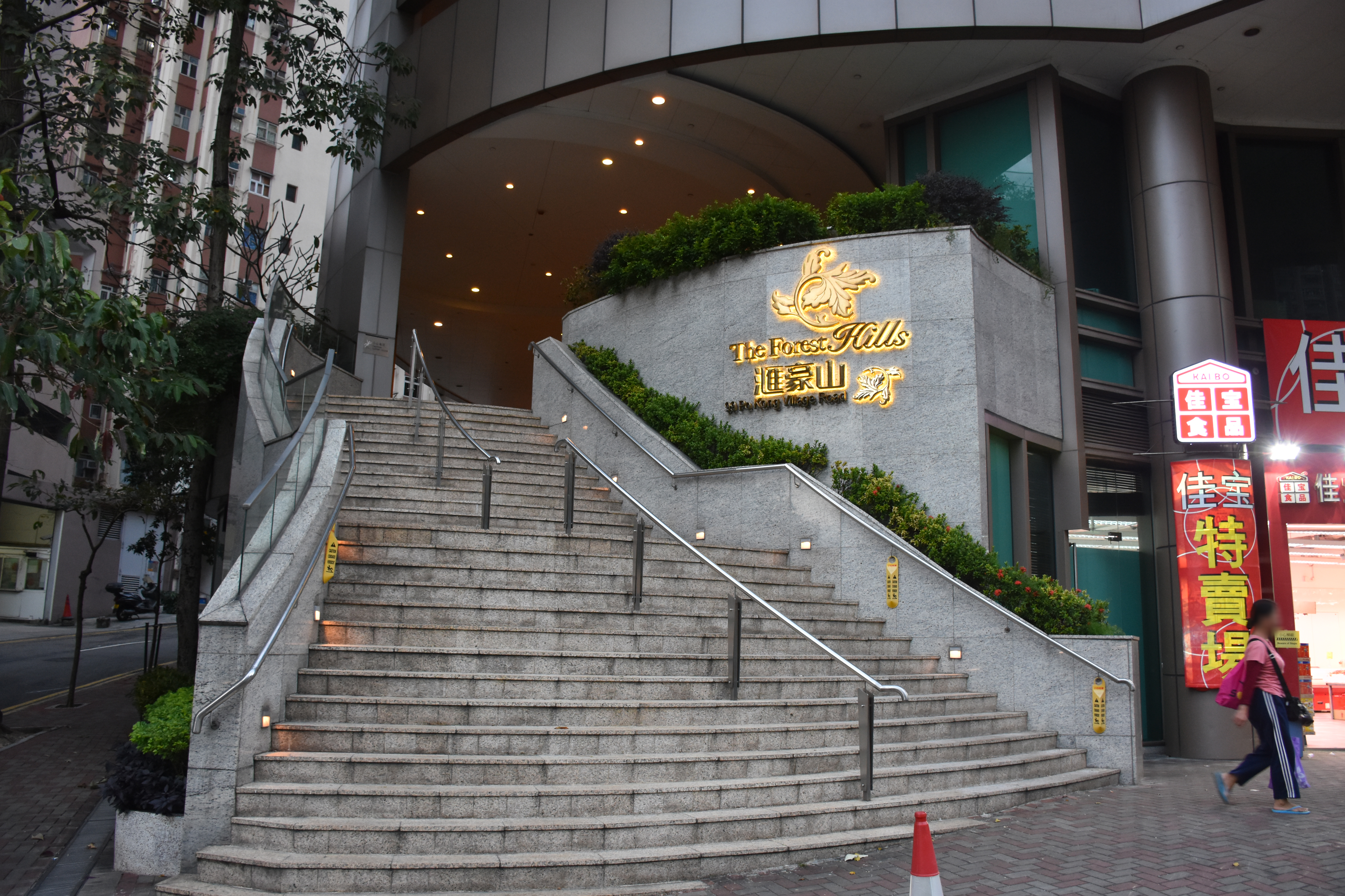 Main entrance of The Forest Hills.